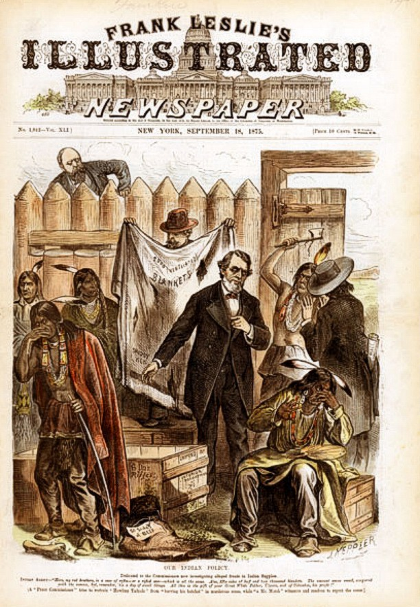 Cartoon, "Our Indian Policy." Cover of Frank Leslie's Illustrated Newspaper of 18 September 1873. Keppler here ridicules the U.S. Indian policy through the caricature of alleged frauds in Indian supplies from peace commissioners. He shows a man offering Indians torn ("ventilated") blankets, an empty rifle case, and 50 sides of spoiled beef.